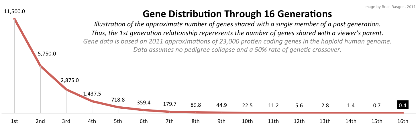 Illustration of the approximate number of genes shared with a single member of a past generation. Thus, the 1st generation relationship reperesents the number of genes shared with a viewer's parent.